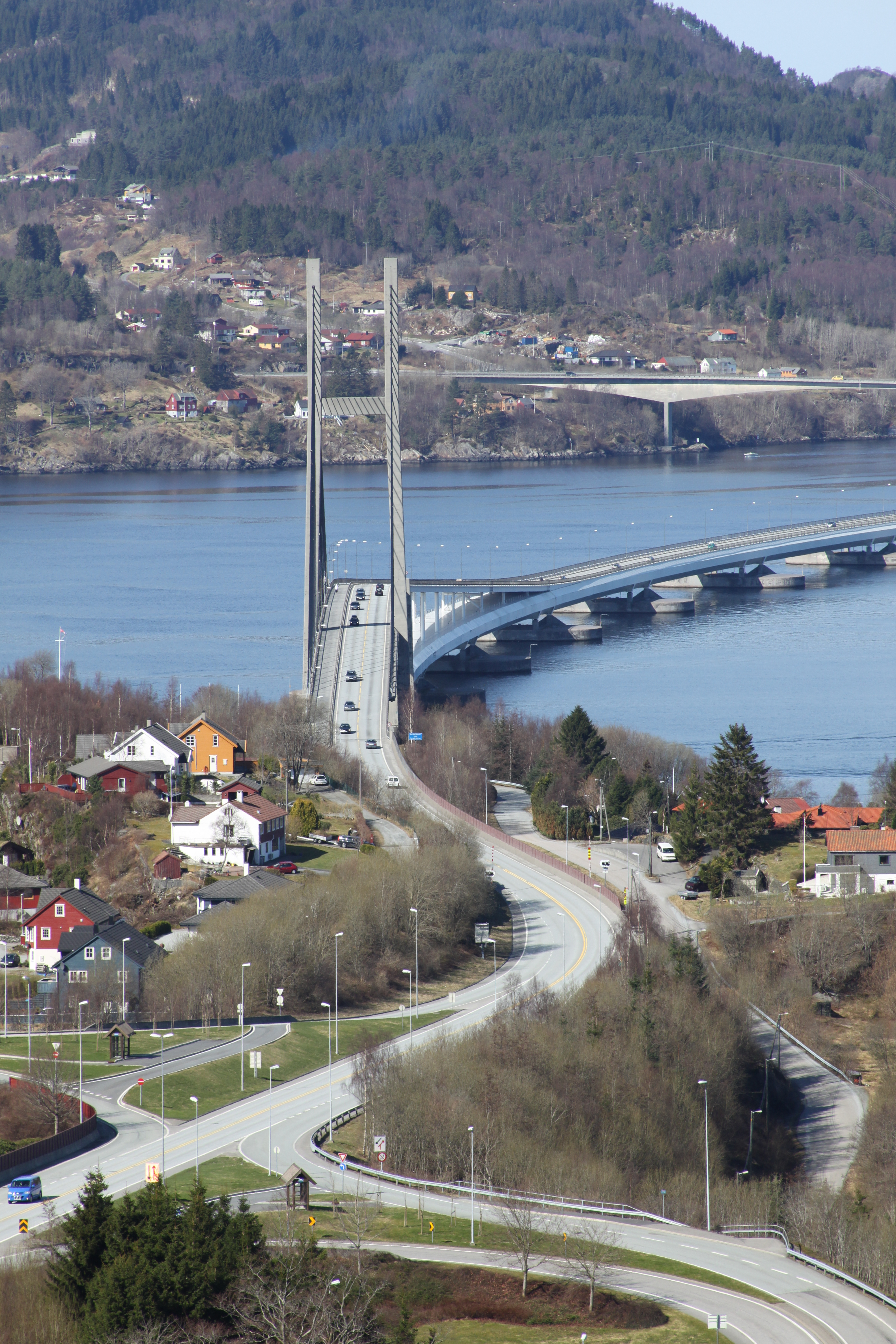 Nordhordlandsbrua towards North wit Korssnesundet bridge behind Norsk (bokmål): Nordhordlandsbrua mot nord med Krossnessundet bru i bakgrunnen